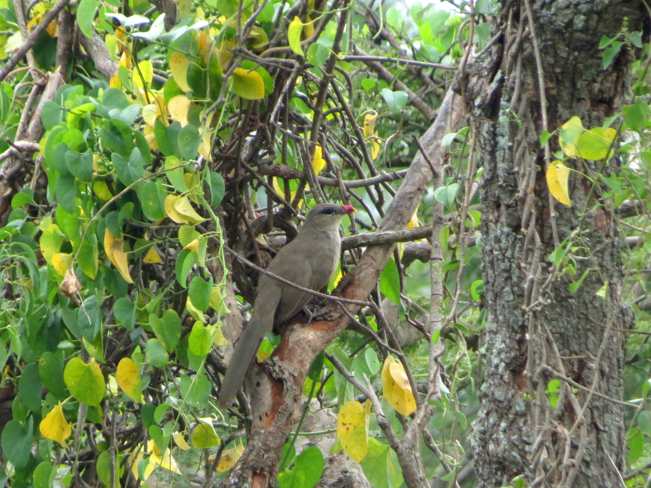 Phaenicophaeus leschenaultii (Sirkeer Malkoha) Seen in Valley school on 30-Aug-2014 at 10:30 AM.